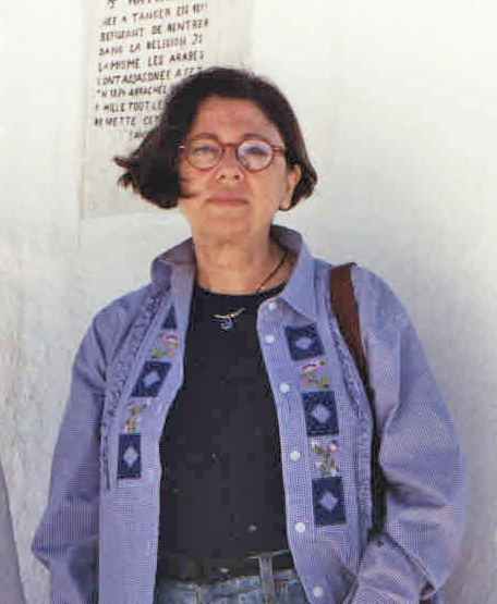 Yaffa Berlowitz